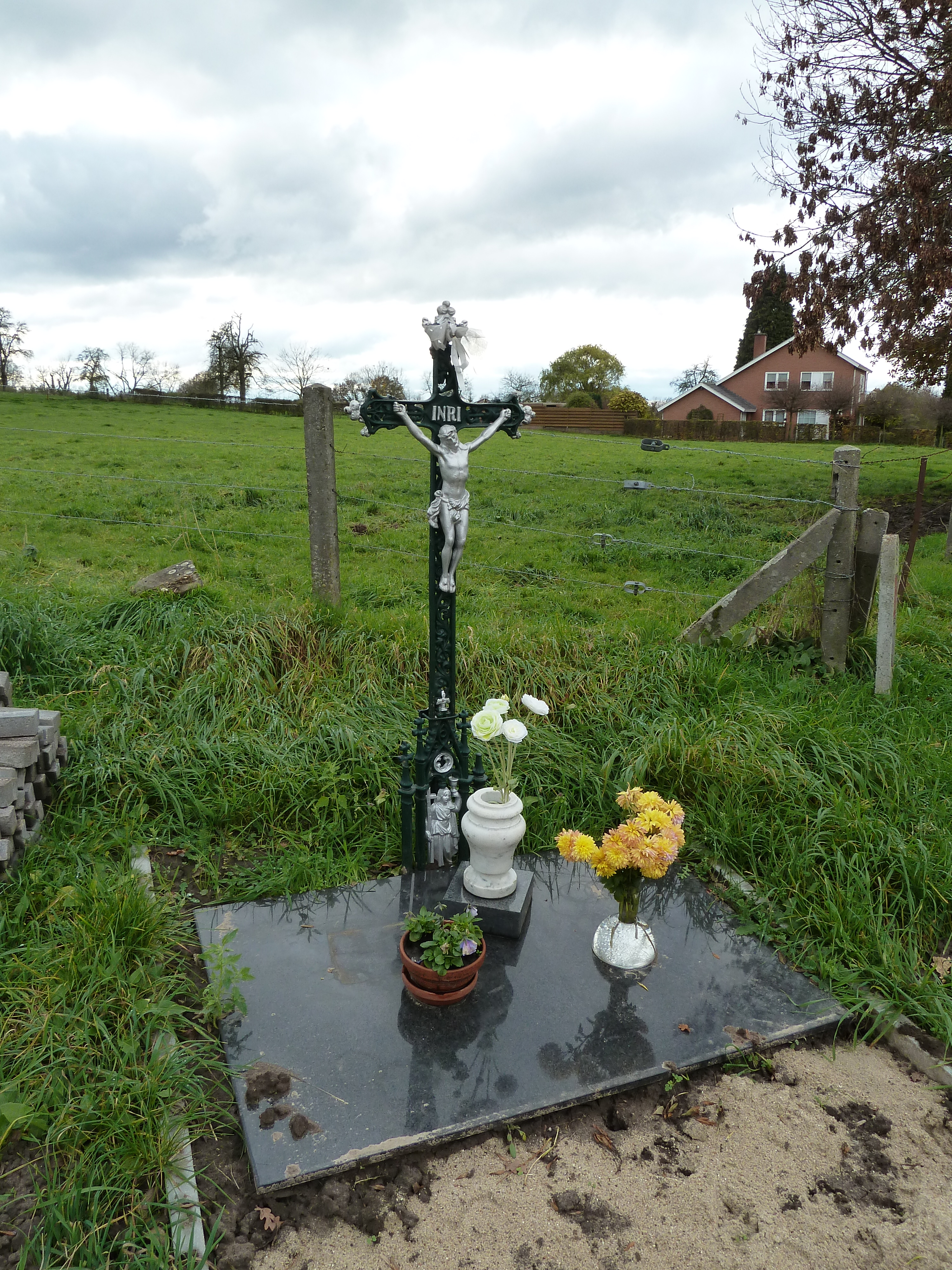 Cross at crossing Vaesrade-Vaesraderweg, Vaesrade, Limburg, the Netherlands